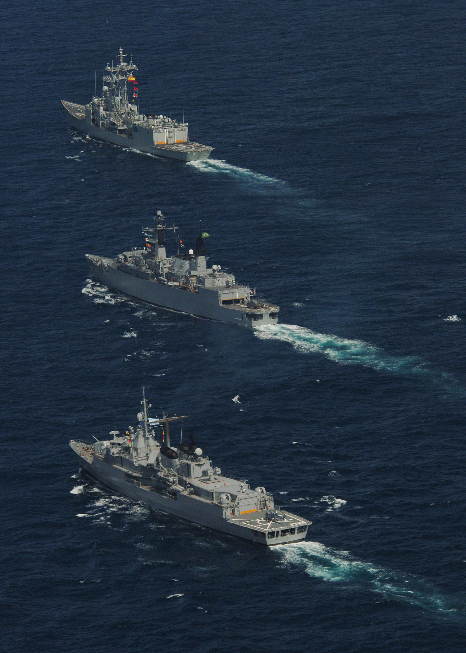 051024-N-4374S-002 Atlantic Ocean (Oct. 24, 2005) - The Spanish frigate SPS Santa Maria (F 81), top, the Brazilian frigate BNS Rademaker (F 49), center, and the Argentinean destroyer Almirante Brown (D-10), steam in formation off the coast of Brazil. Naval forces from Argentina, Brazil, Spain, Uruguay and the United States are participating in UNITAS 47-06 Atlantic phase. This is a U.S. Southern Command-sponsored exercise that enhances friendly, mutual cooperation and understanding between participating navies by enhancing interoperability in naval operations among the nations of the Western Hemisphere.